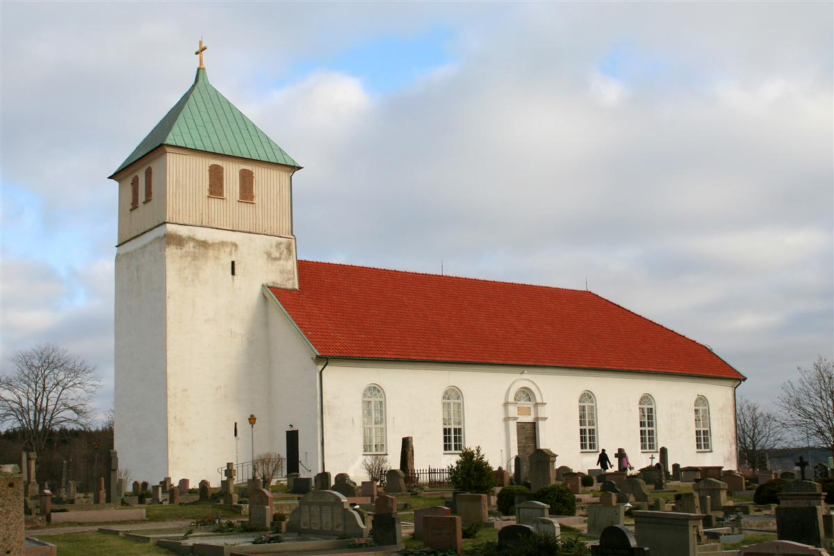 Torsby Church